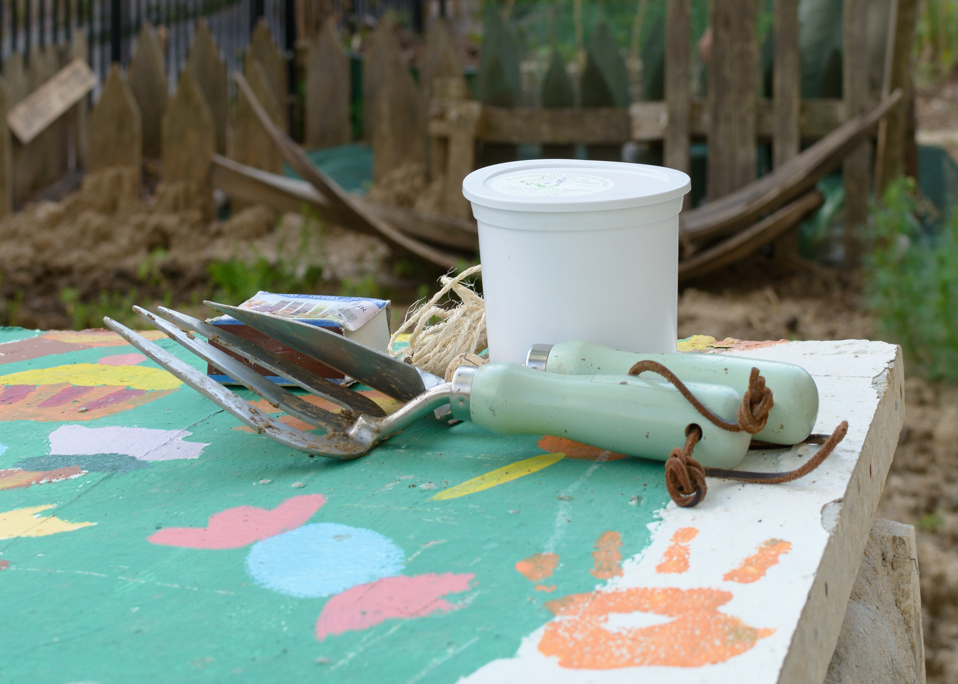 Hand gardening tools: gardening fork and tranplanter